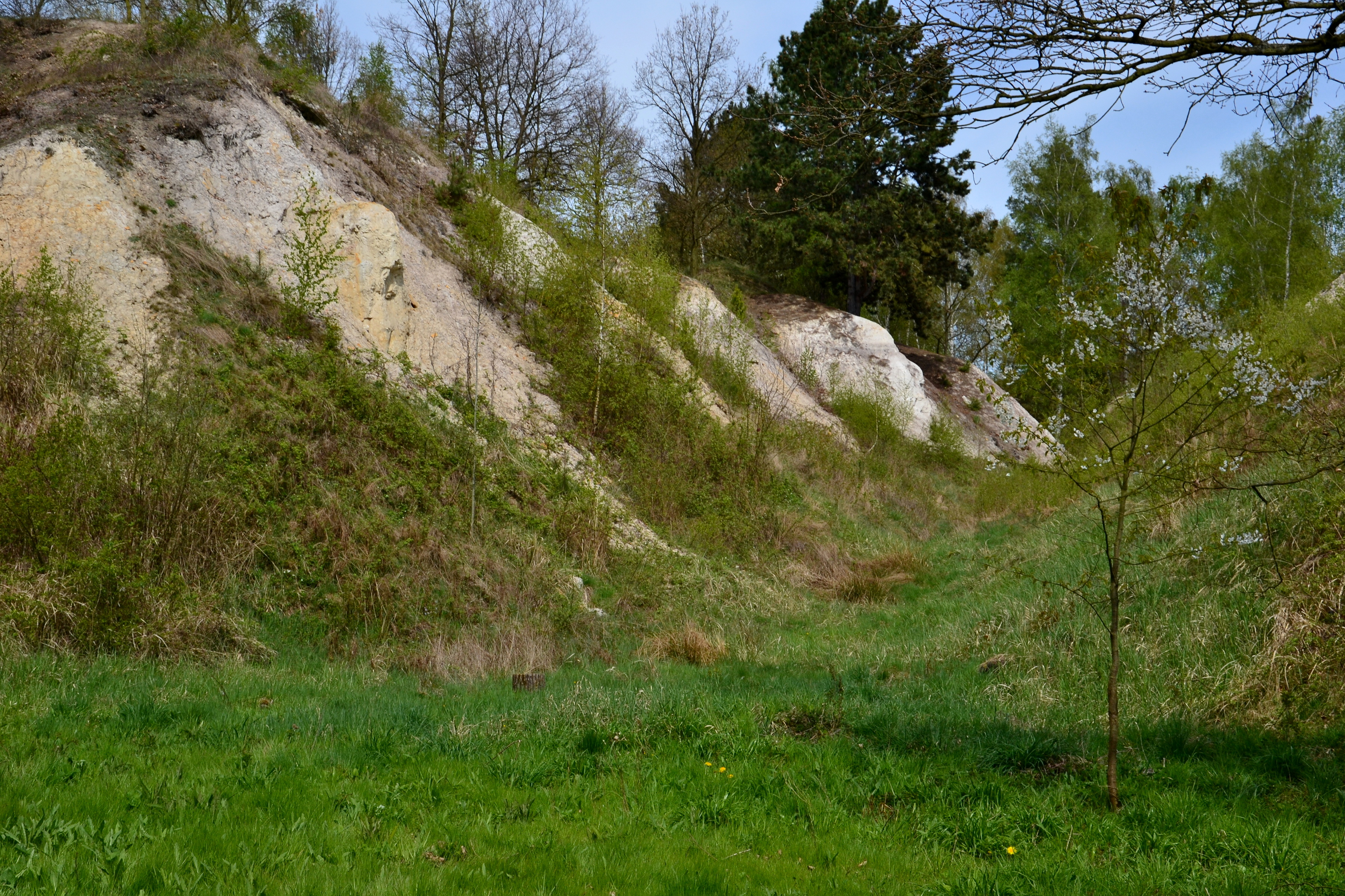 Natural monument Střezovská rokle in Chomutov District, Czech Republic